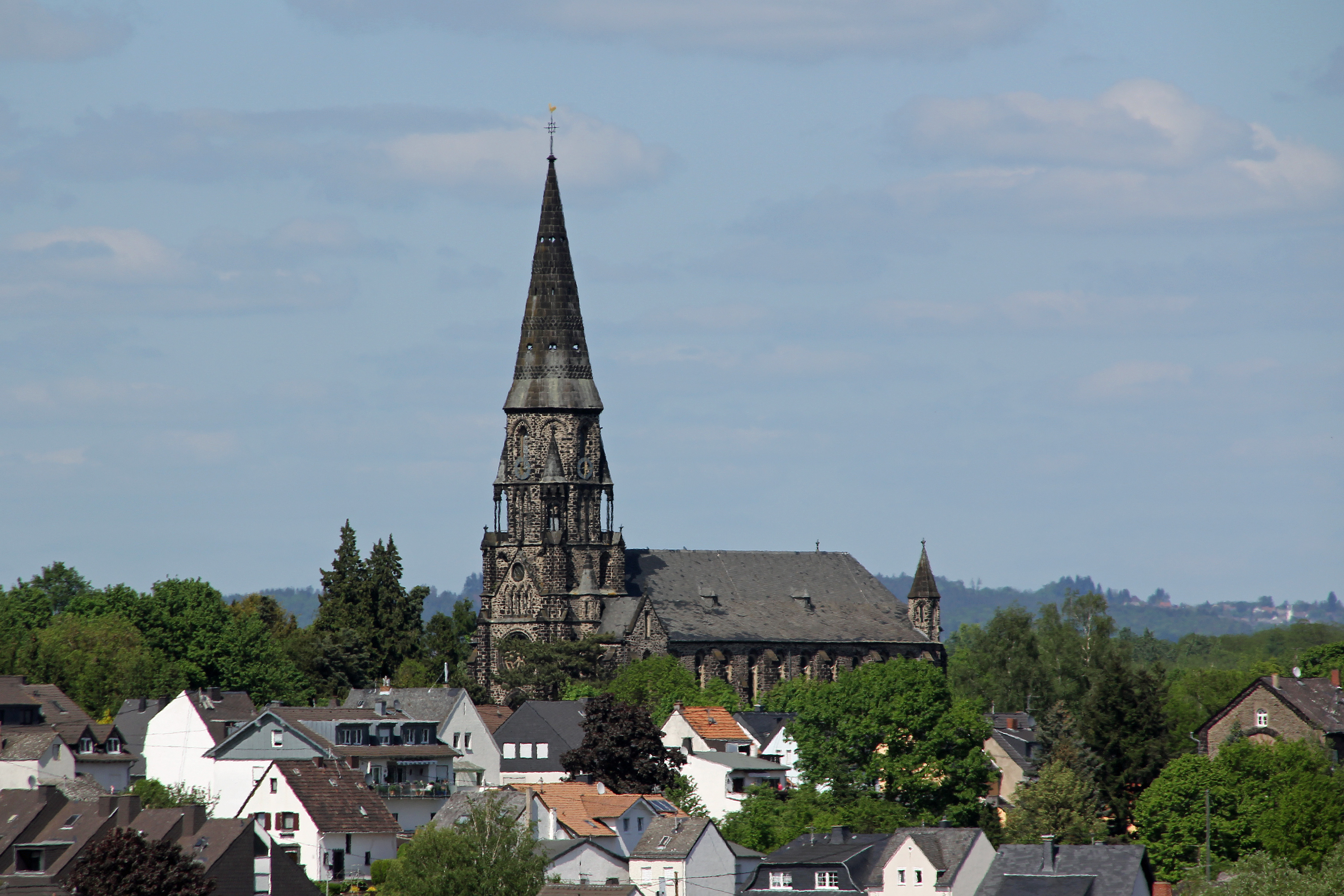 St. Mauritius church in Koblenz